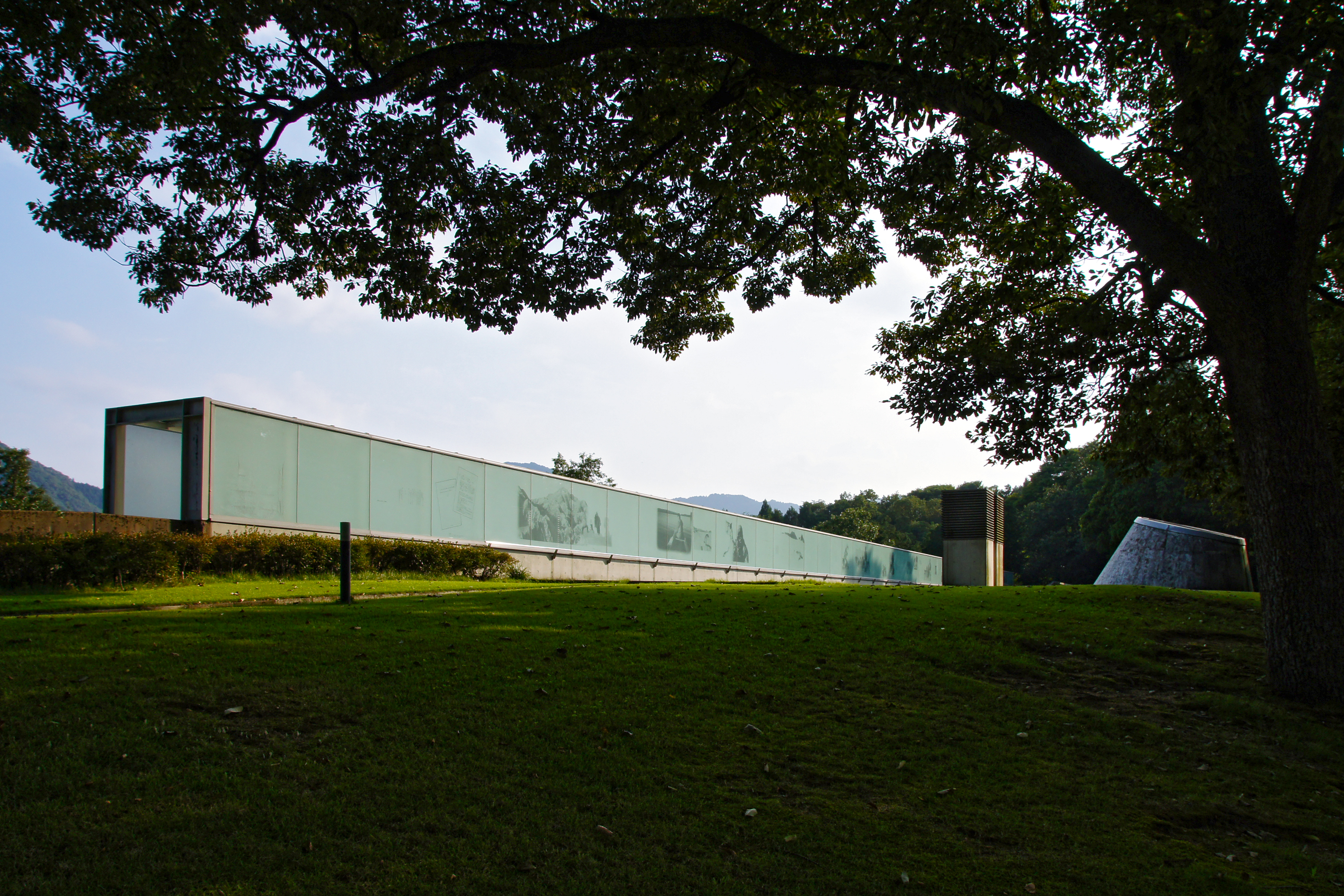 Uemura Naomi Memorial Museum in Kannabe highlands, Toyooka, Hyogo prefecture, Japan.